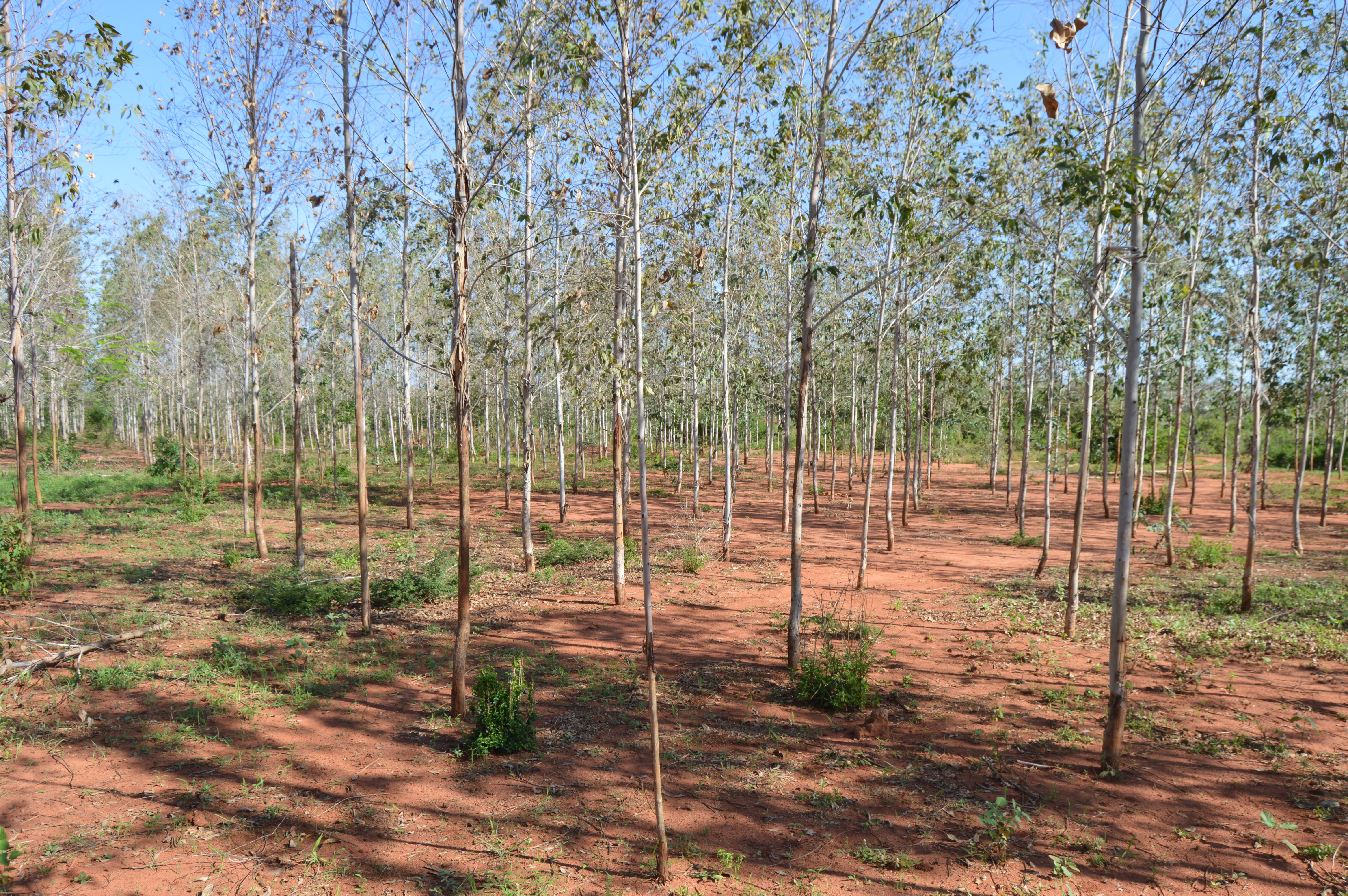 This is an image of "African people at work" from Kenya